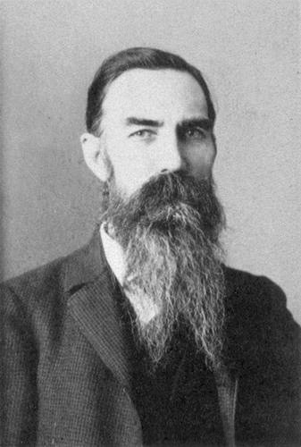 Thomas George Thrum (1842-1932) author of the Thrum's Hawaiian Annual.